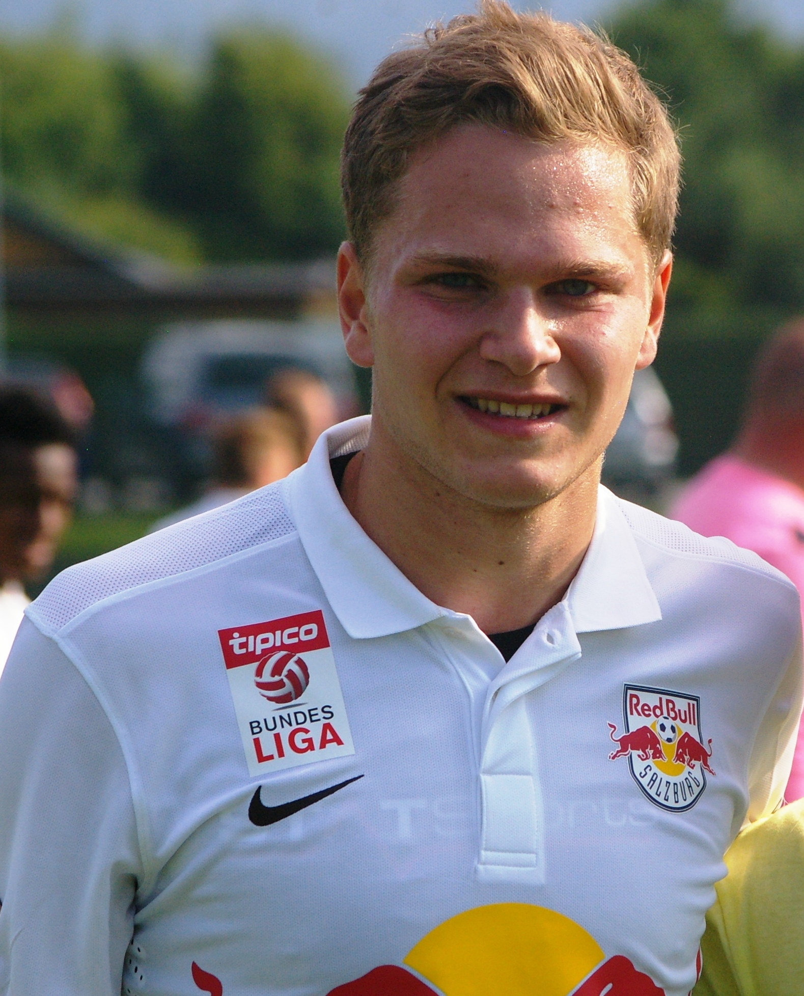 defender Red Bull Salzburg